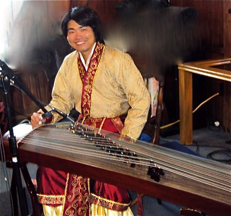 Chen Xiyao at Hibiscus Coast Singers recording session, Silverdale church, Auckland, Feb 22, 2012